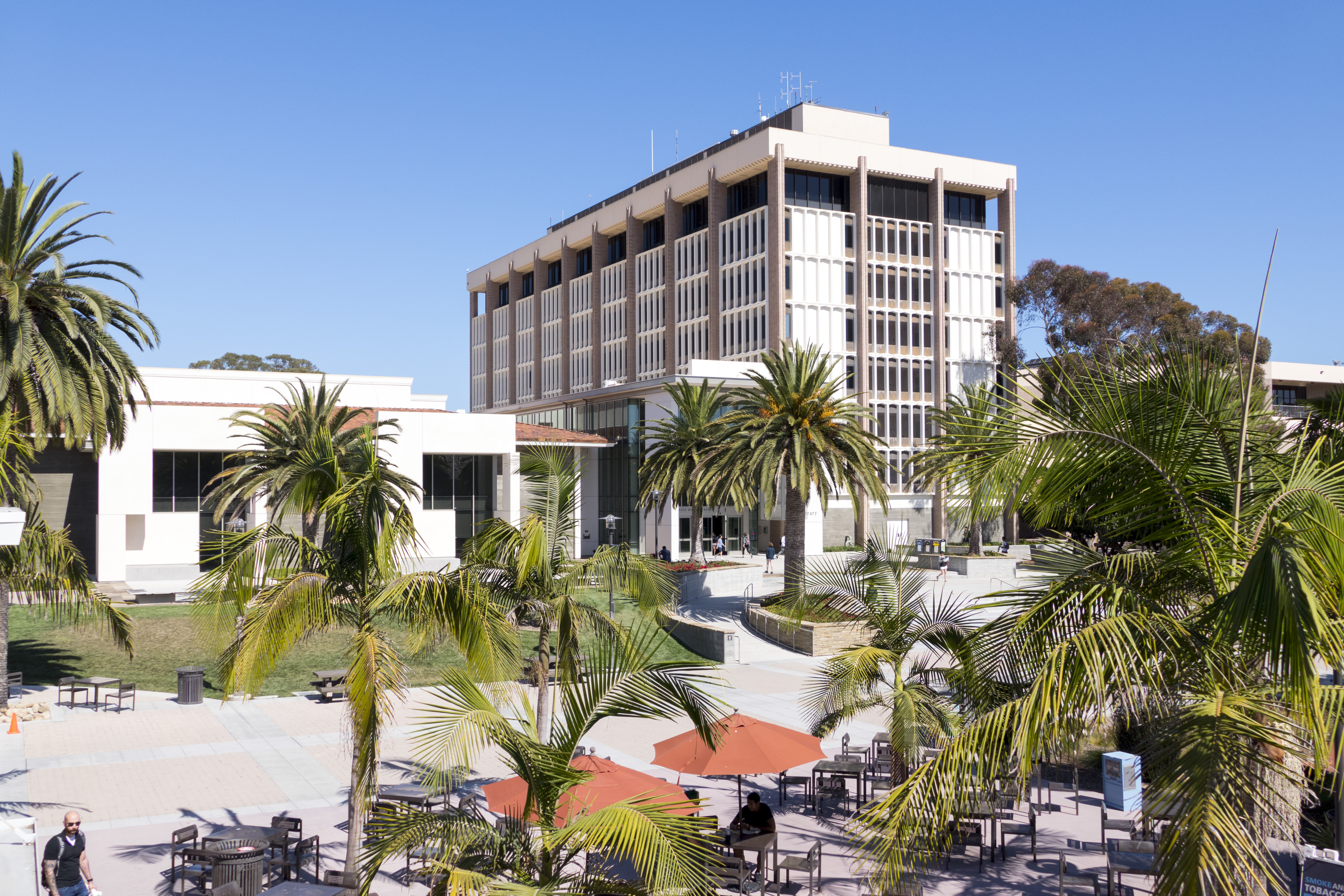 West entrance to the UC Santa Barbara Library, showing Mountain (left) and Ocean (right) sides of the library.